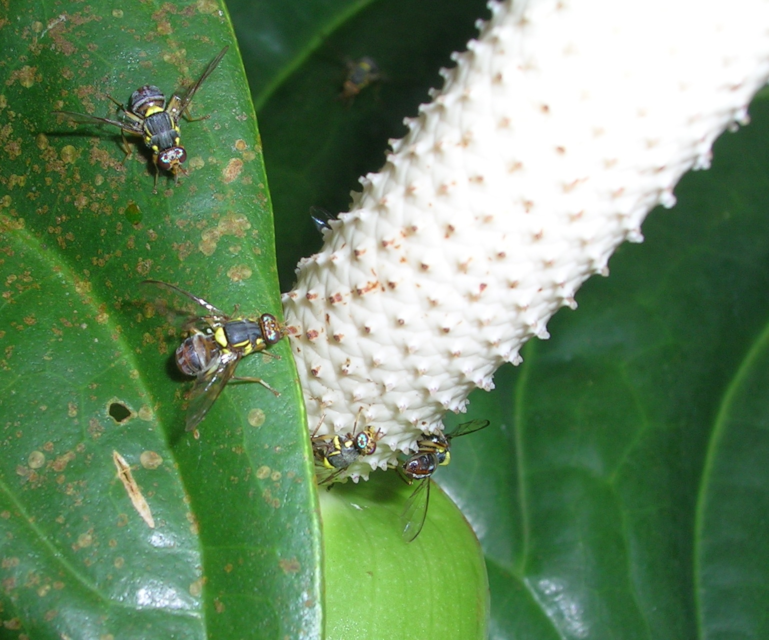 Bactrocera sp. on Anthurium smelling of Methyl Eugenol. North Wayanad